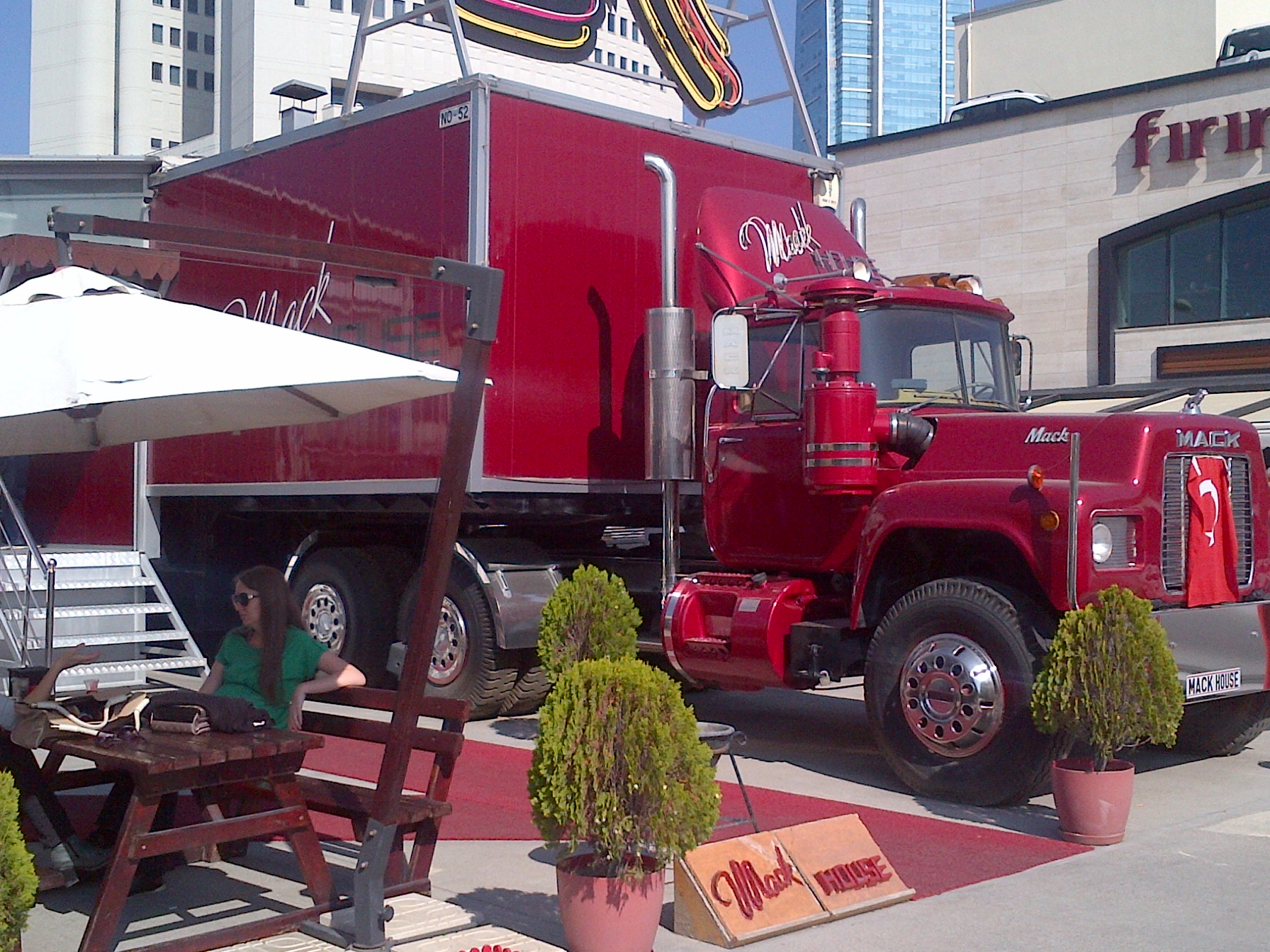 "Mack House" Mack truck restaurant in Ankara, Turkey.